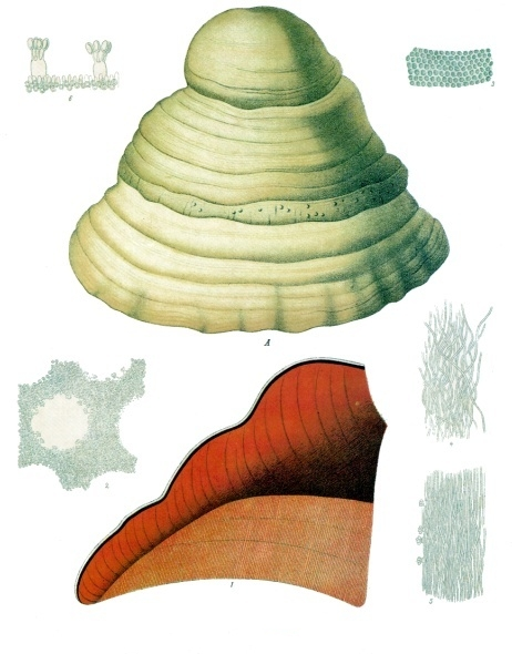 Hoof fungus. A - A fruiting body at natural size; 1 - the same in vertical cross-section, also natural size; 2 - cross-section from the tube layer, strongly magnified; 3 - the same, less strongly magnified; 4 - hyphae from the cap tissue, strongly magnified; 5 - lengthways section from the tube layer, also strongly magnified; 6 - hymenium with spore-bearing basidia, also strongly magnified.